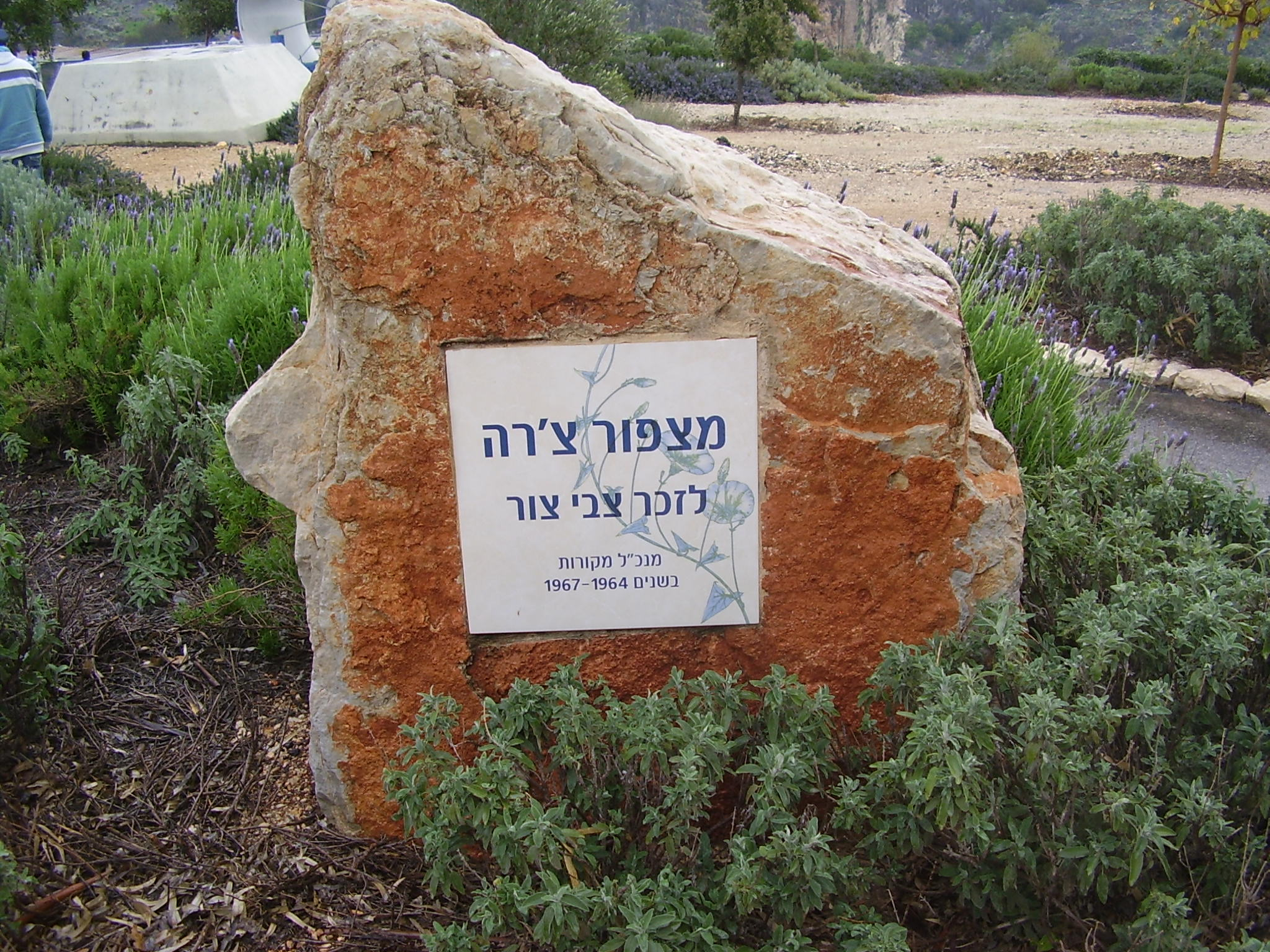 chara lookoot in galilee